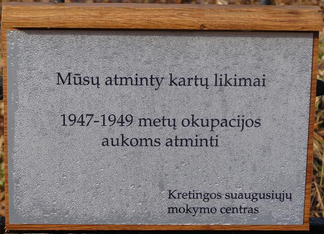 Nausodis, Kretinga district, LithuaniaLietuvių: Partizanų atminimo vieta Nausodžio k., Kretingos rajonas, Lietuva